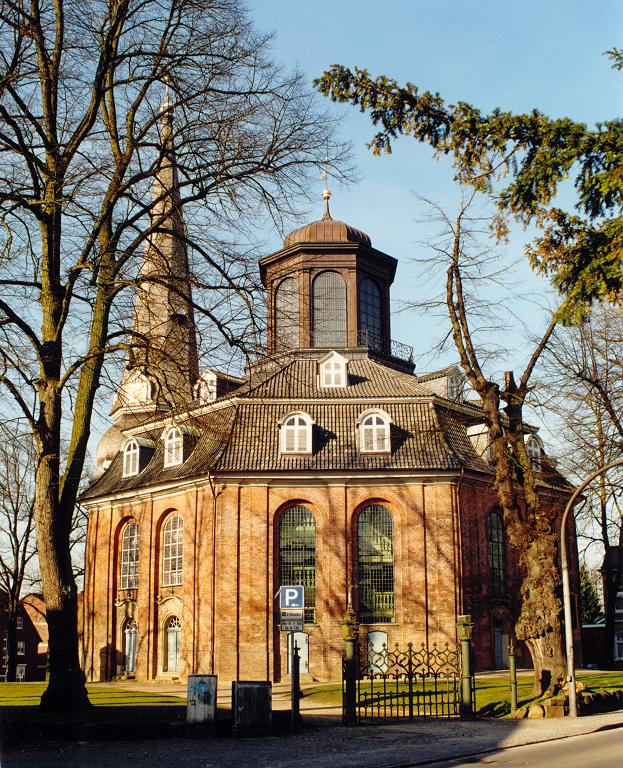 The church of Rellingen, Schleswig-Holstein (Germany), photo 2000